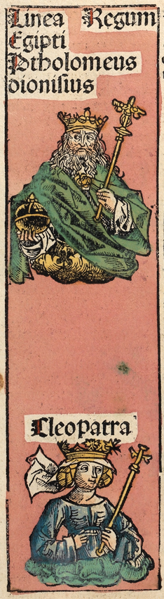 This is a part of a scan of an historical document: Title: Schedelsche Weltchronik or Nuremberg Chronicle